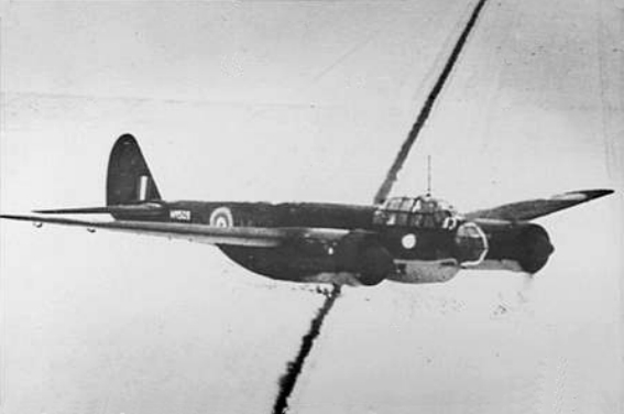 A captured Junkers Ju 88 A-5, RAF serial HM509, of No. 1426 (Enemy Aircraft Circus) Flight based at Collyweston, Northamptonshire, in flight. Formerly "M2+MK" of Küstenfliegergruppe 106, this aircraft fell into British hands on 26 November 1941 when its crew became disorientated following an abortive anti-shipping sortie in the Irish Sea and landed by mistake at Chivenor, Devon. HM509 joined No. 1426 Flight, then at Duxford, Cambridgeshire, on 11 December 1941, remaining with them until 26 July 1944, when it was struck off charge.